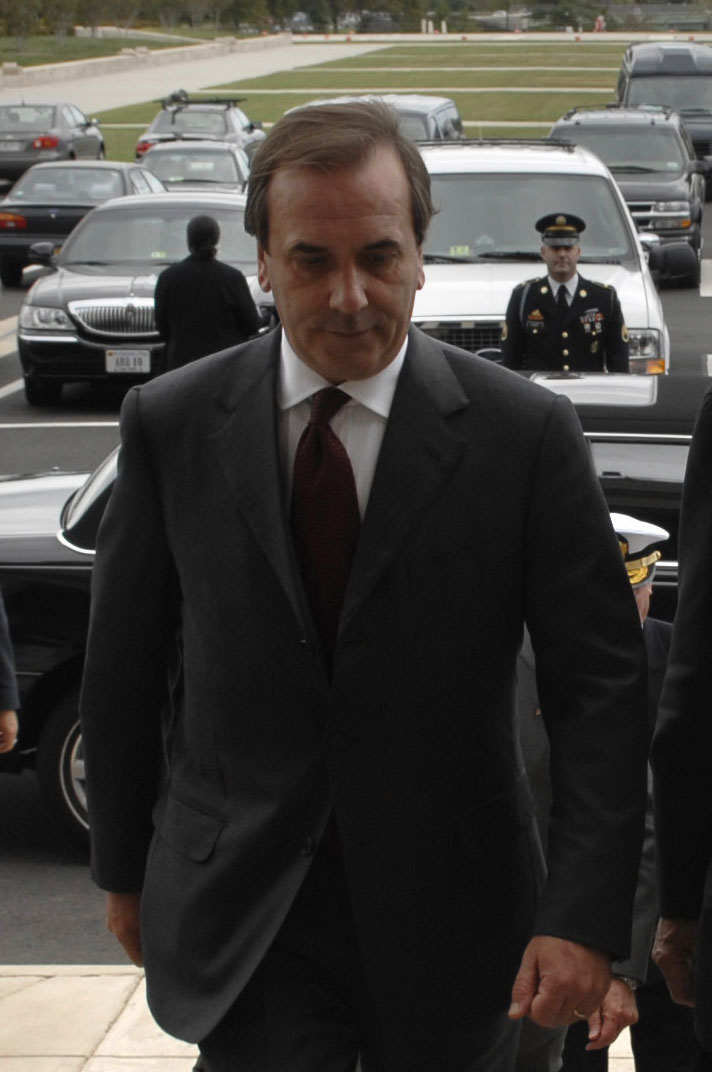 José Antonio Alonso, Spanish Defence Minister (April 11 2006-April 12 2008).